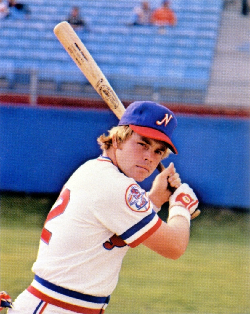 Outfielder Buck Showalter of the 1980 Nashville Sounds Minor League Baseball team of the Southern League